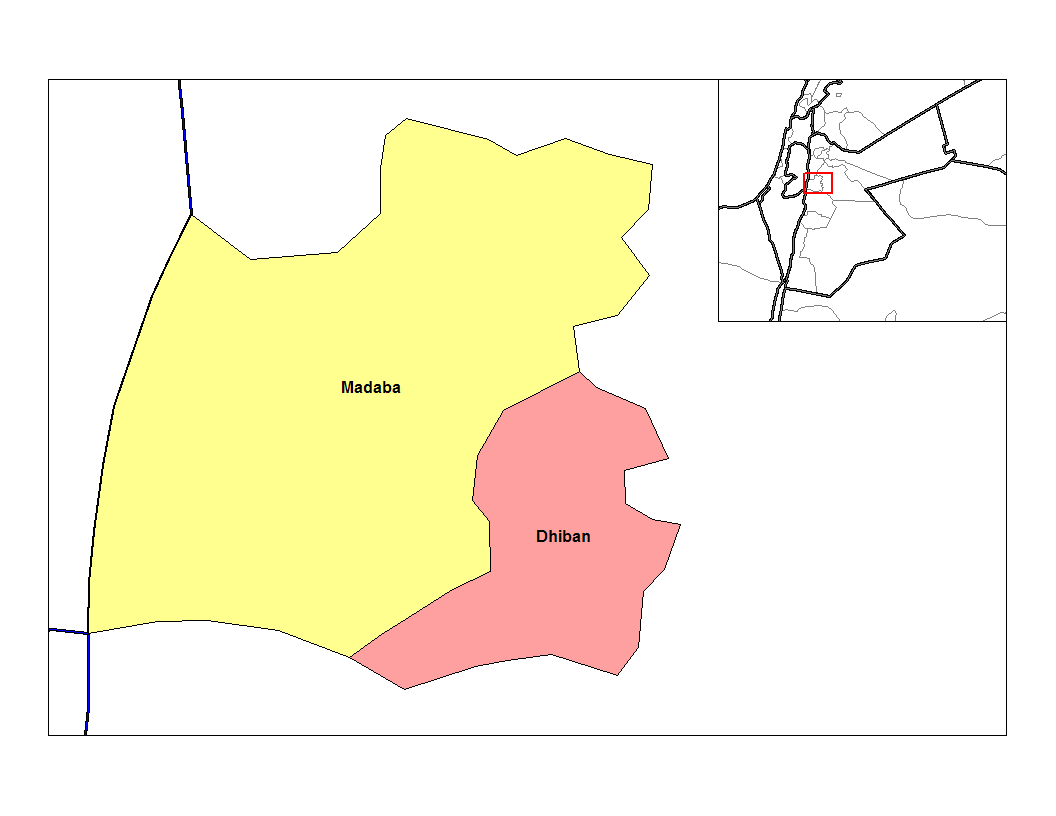 Map of the nahias of Madaba governorate in Jordan. Created by Rarelibra 21:06, 27 December 2006 (UTC) for public domain use, using MapInfo Professional v8.5 and various mapping resources.